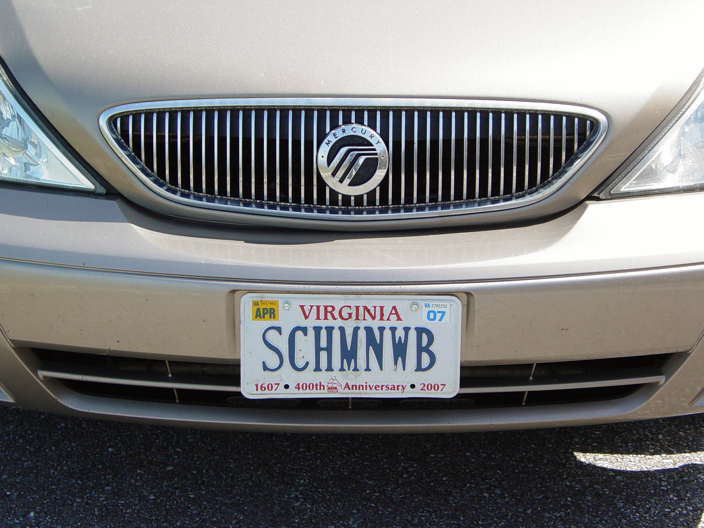 Current Mercury grille and "waterfall" logo on the front of a 2004 Mercury Sable wagon. Photo by Ben Schumin on April 18, 2006.